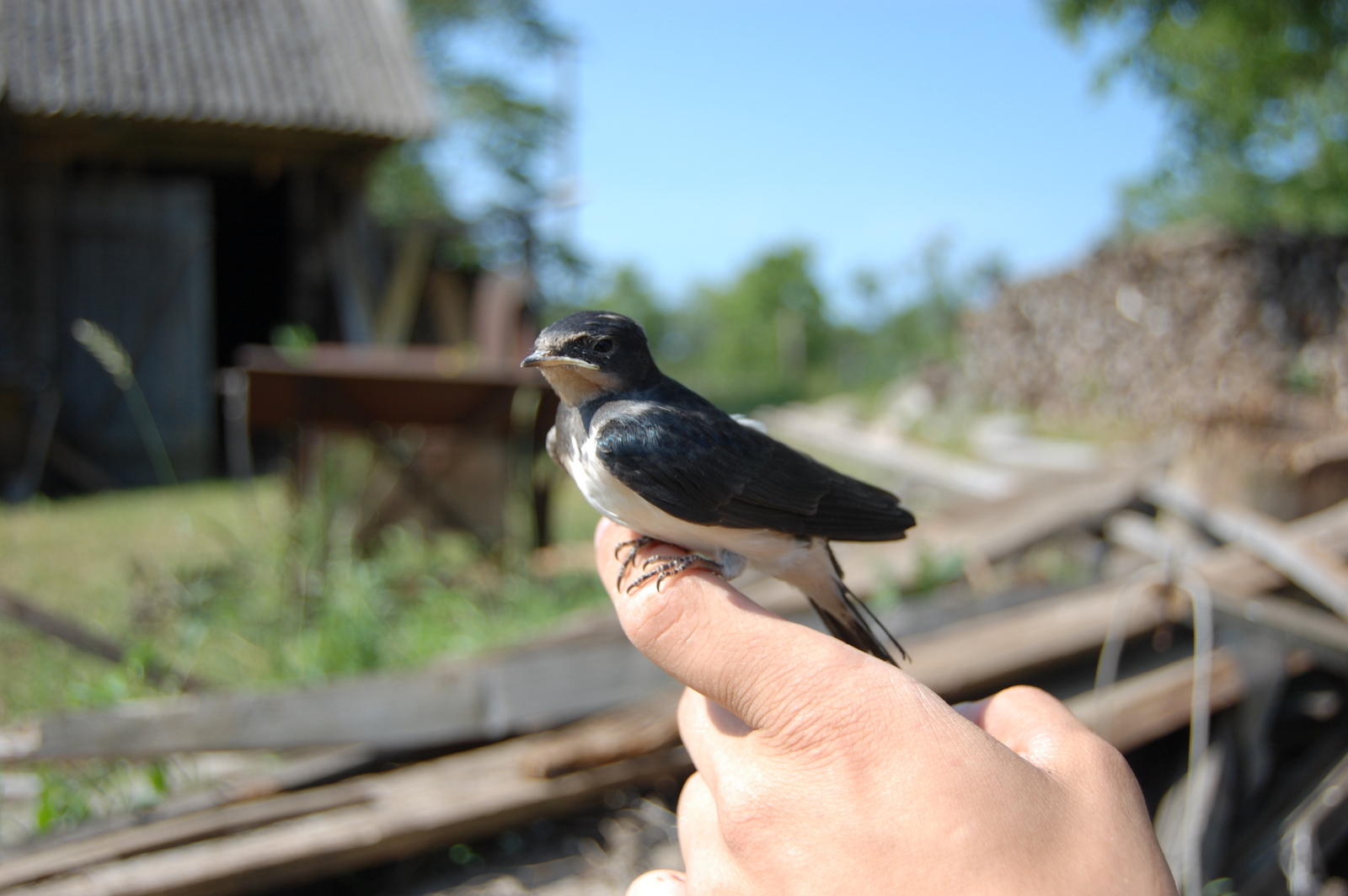 Barn swallow in hand